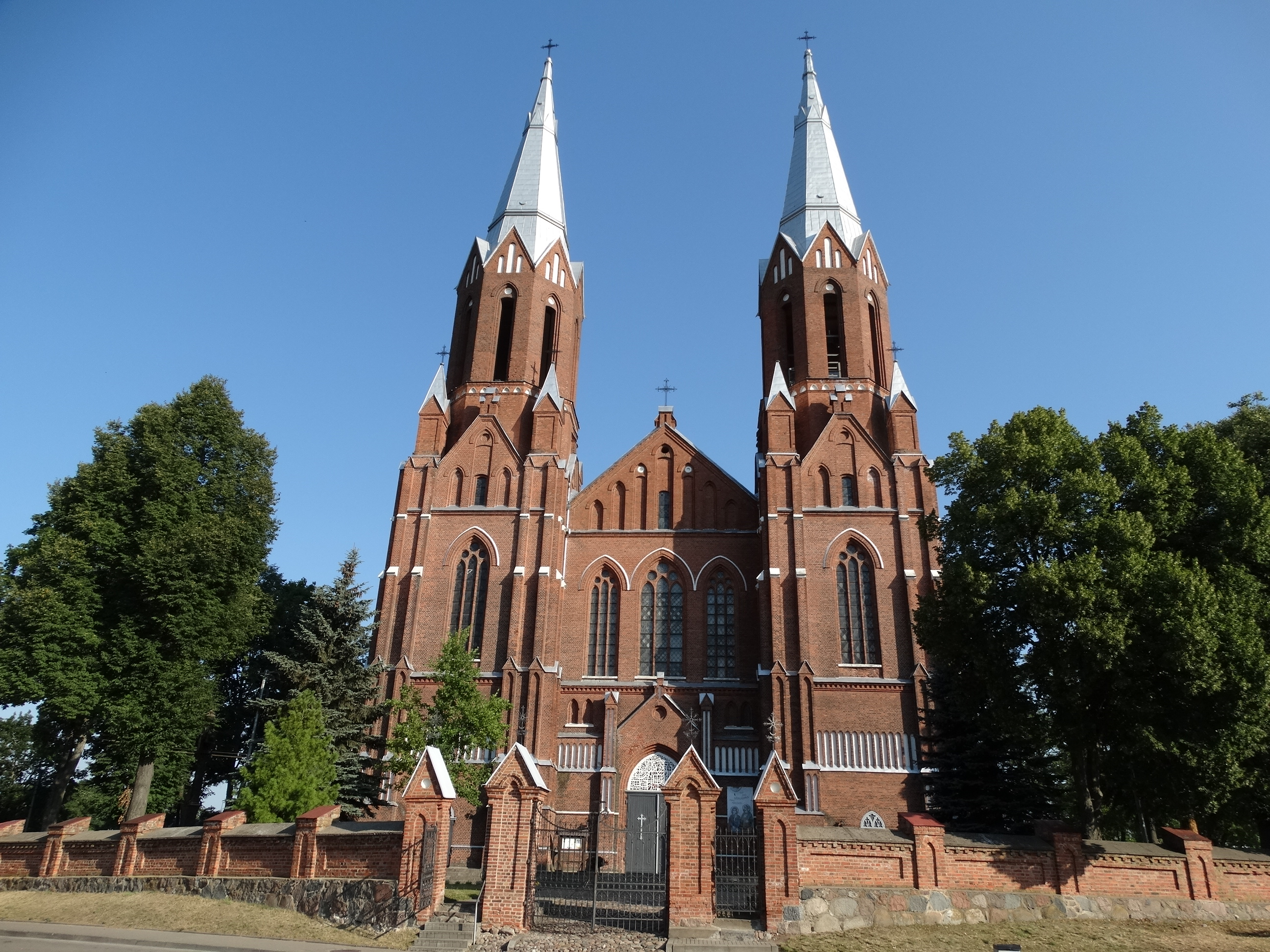 Church of Apostle Evangelist St. Matthew, facade, Anykščiai, Lithuania